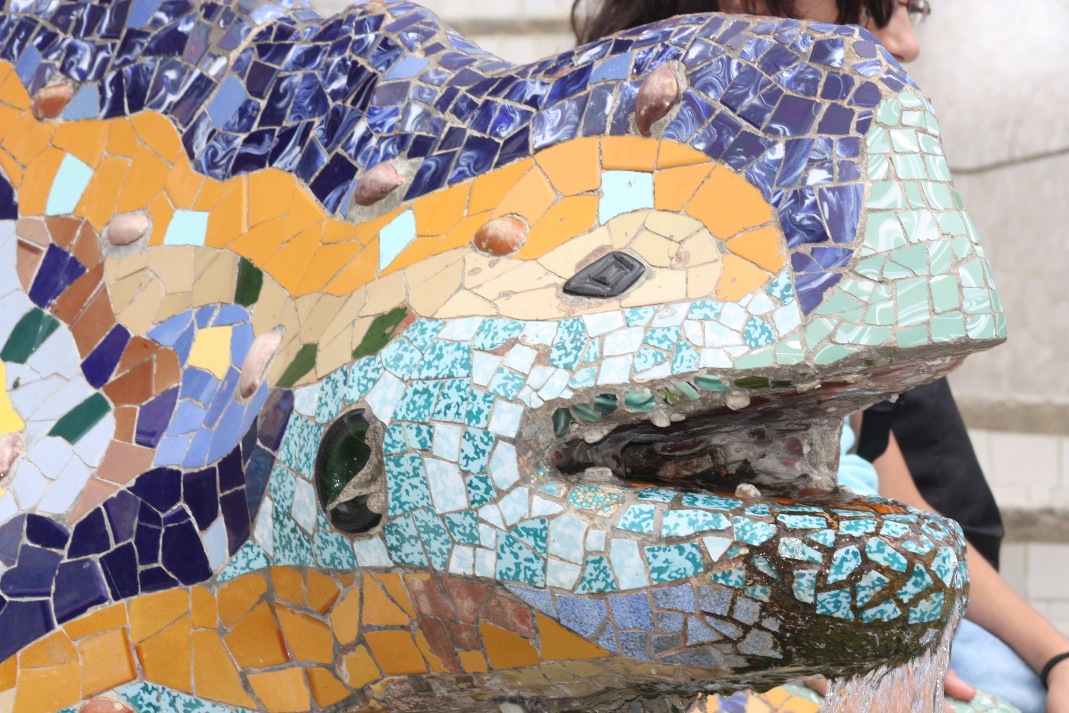 Parc Güell, Barcelona, July 2009